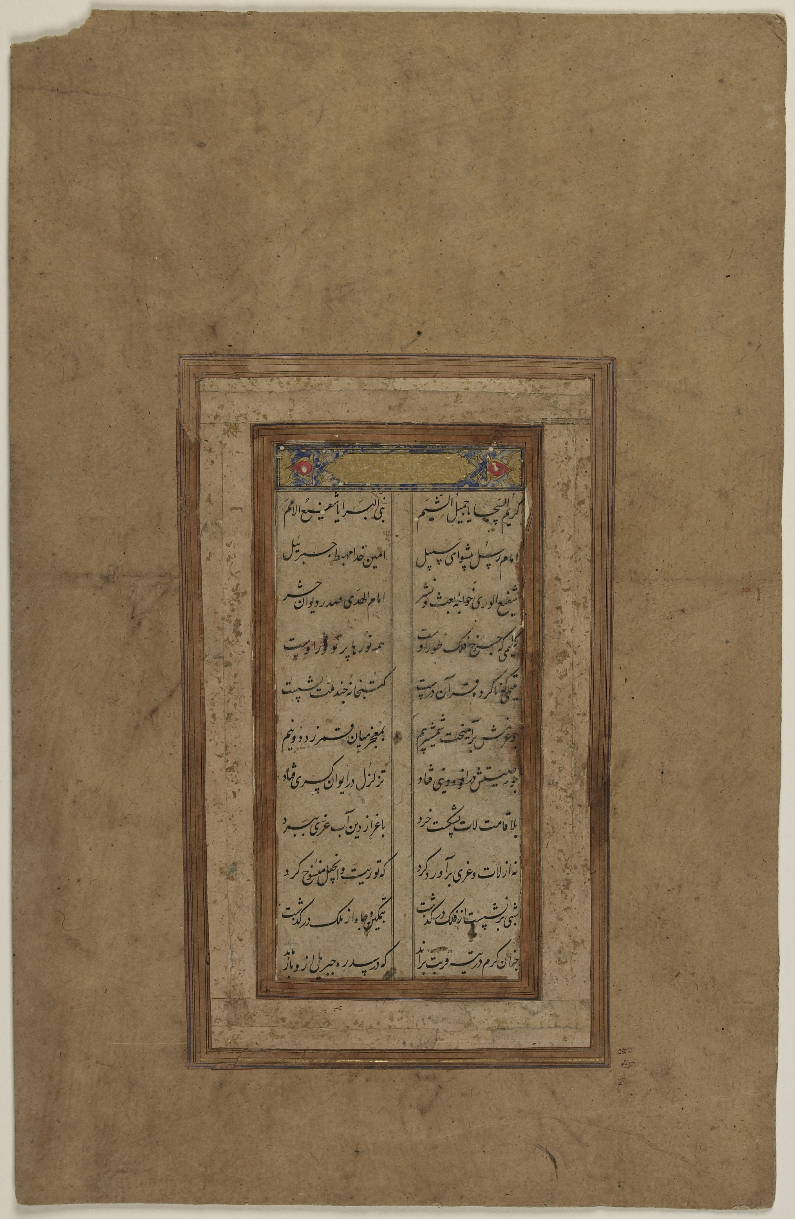 Script: nasta'liq These calligraphic fragments are the first seven pages of Sa'di's Bustan (The Fruit Garden or The Orchard). The order of the first seven pages of this work all belonging to the same manuscript goes as follows: Page 1: 1-04-713.19.26, Page 2: 1-04-713.19.15, Page 3: 1-04-713.19.14, Page 4: 1-04-713.19.12, Page 5: 1-04-713.19.13, Page 6: 1-04-713.19.11, Page 7: 1-04-713.19.25 Page 7: After six pages in praise of God, the text here provides an encomium of the Prophet Muhammad headed by a gold panel which should have included the title dar na't-i rasul (in praise of the Prophet). The last two lines of poetry on this page extol the Prophet's miraculous ascension to the heavens (mi'raj): One night he sat (on his flying steed Buraq) and passed through the heavens. / In majesty and grandeur, he exceeded the angels. / So impulsive, he urged (his steed) into the plain of closeness (to God) / While Gabriel remained behind him at the Lote Tree (of the Limit) This copy of the Bustan may have been produced in India during the 17th century. The back of the second page (1-04-713.19.15) of this series includes a note supporting this provenance, as it states that the work was written by 'Abd al-Rashid Daylami. He was one of the famous calligraphers active at the court of the Mughal ruler Shah Jahan (r. 1627-1656) in Agra and Delhi.